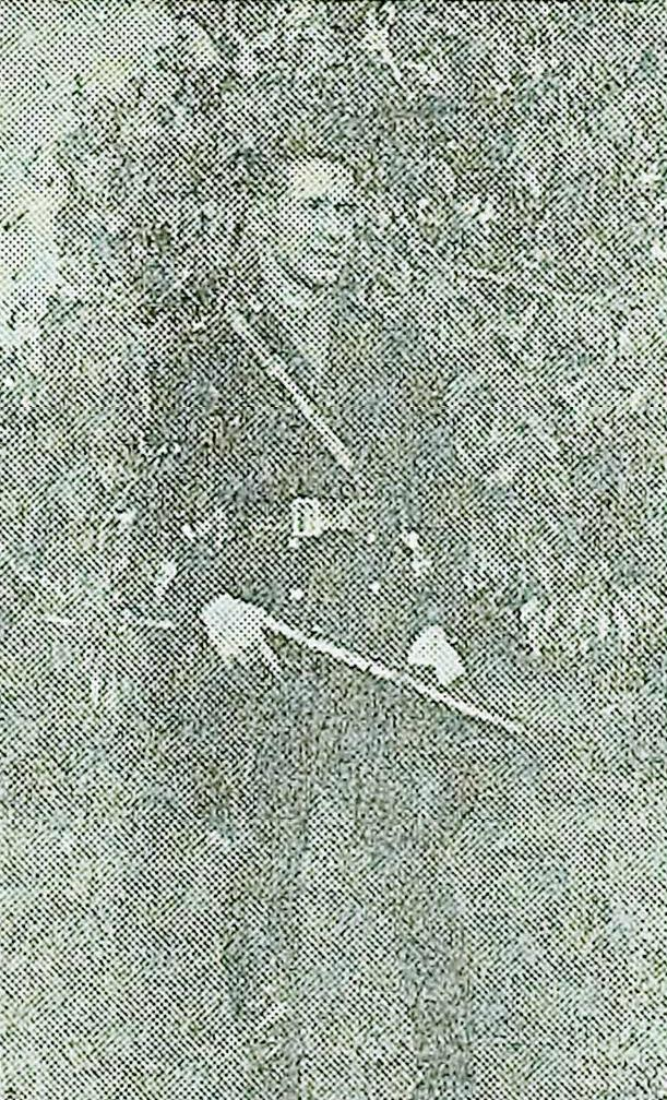 Dušan Munih-Darko (1921-1945), Slovene partisan